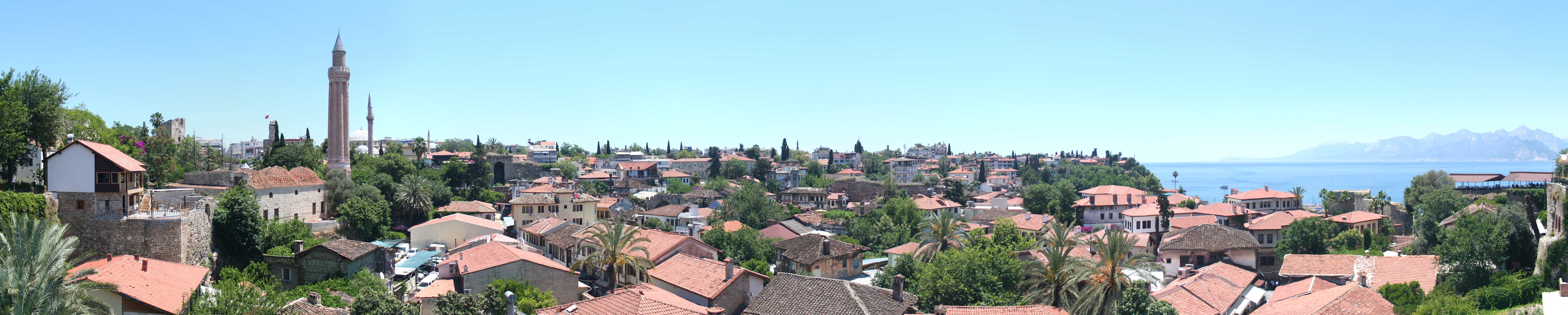 Antalya - Yivli Minare, Kaleici